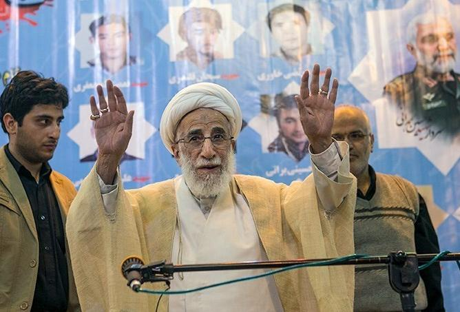 Ahmad Jannati